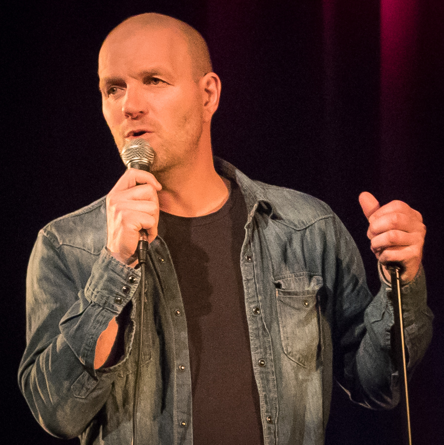 Bård Tufte Johansen on the stage at Tvungen tekst on Parkteatret. The comedy event took place on 27. January 2017 in Oslo as part of Crap Comedy festival 2017. Lineup:Bård Tufte Johansen (comedian)Christoffer Schjelderup (comedian)Lars Berrum (comedian)Jan Tore Kristoffersen (comedian)Cécile Moroni (comedian)